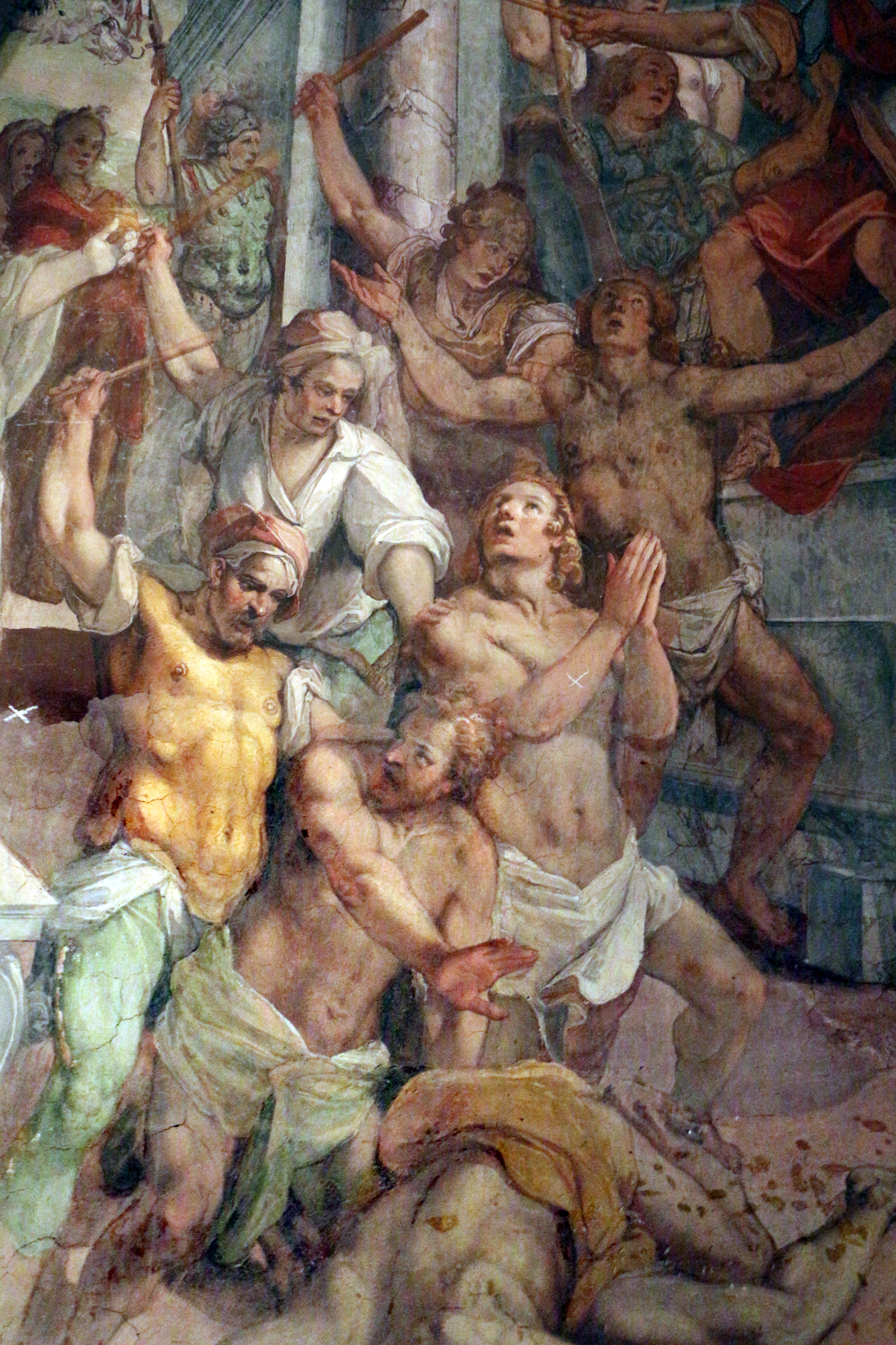 Santi Quattro Coronati (Rome) - Frescos by Raffaellino da Reggio